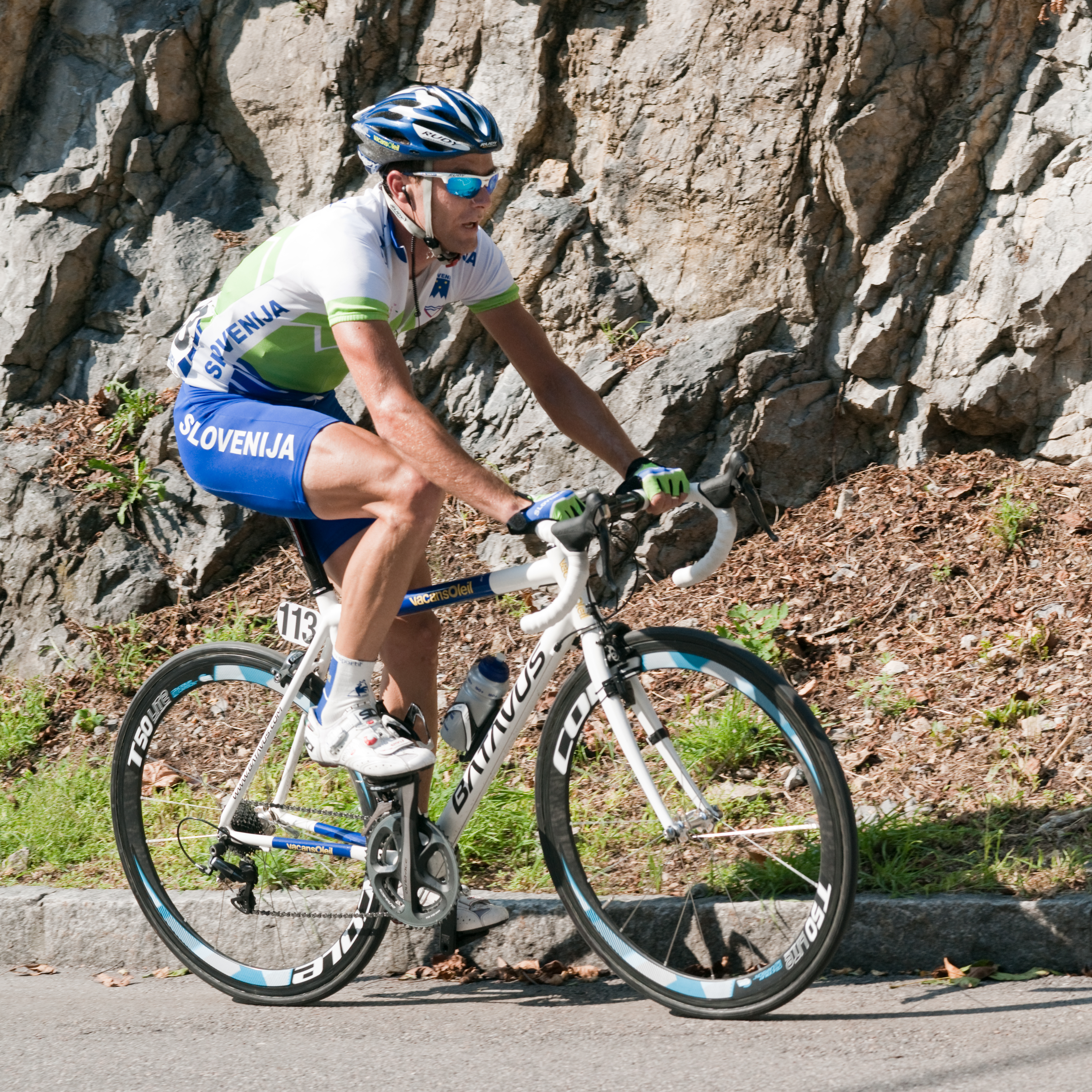 Borut Bozic during the 2009 UCI Road World Championships in Mendrisio, Switzerland.